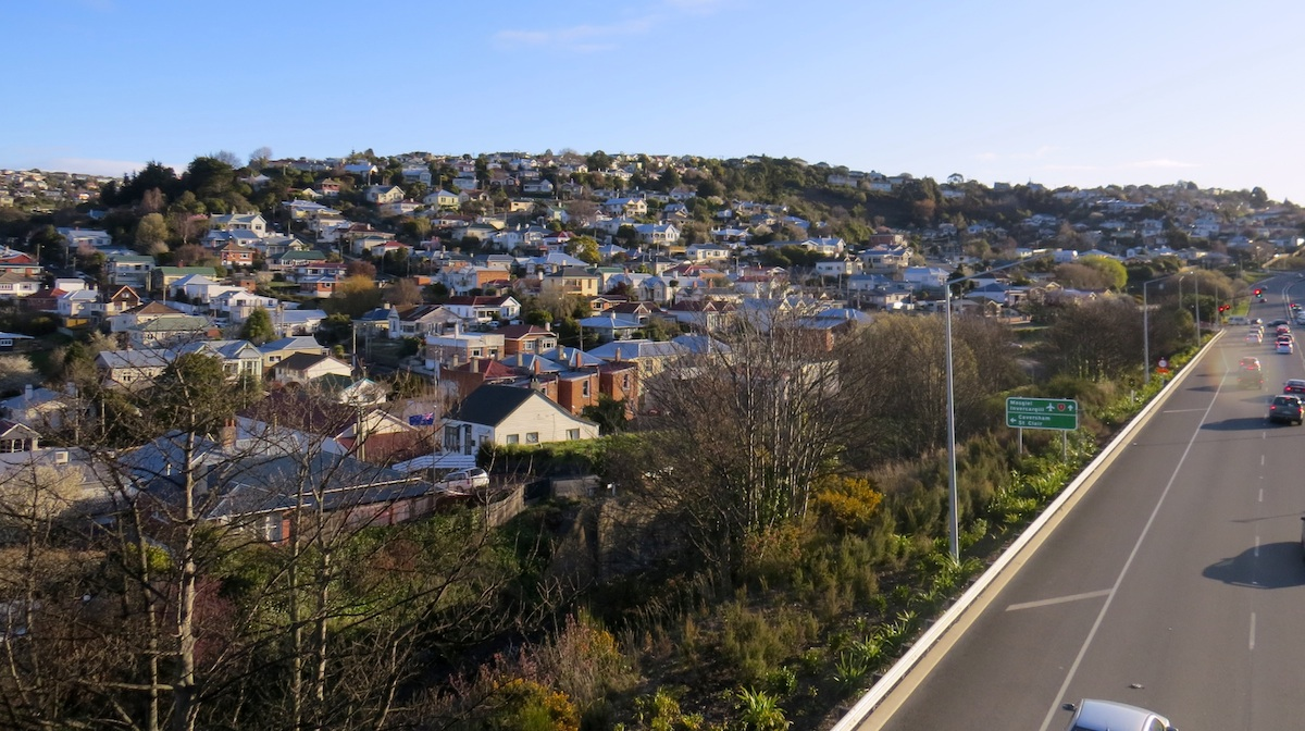 A view of Calton Hill, Dunedin, New Zealand, from above the Dunedin Southern Motorway